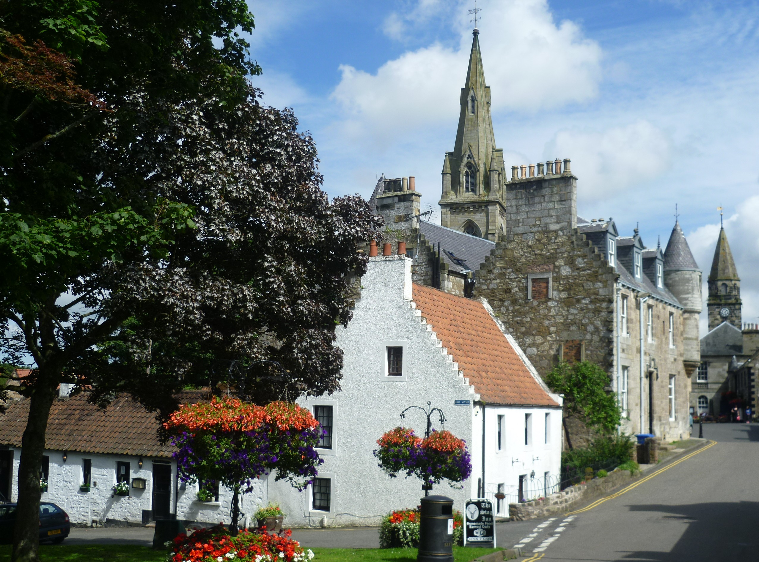 Approaching Falkland High Street from the West Port